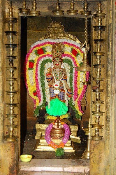 Karungulam